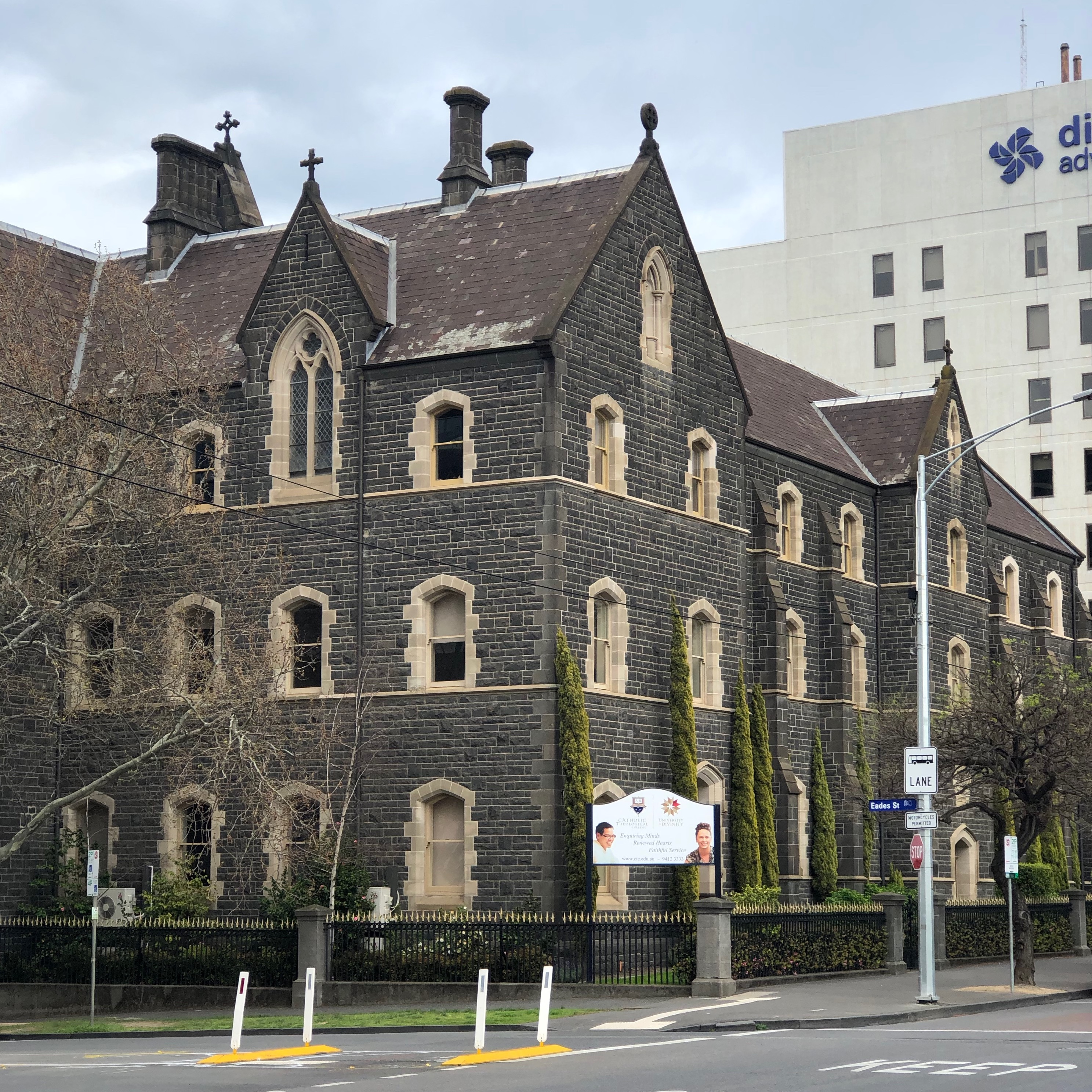 Cathedral College in East Melbourne Victorian Heritage Database